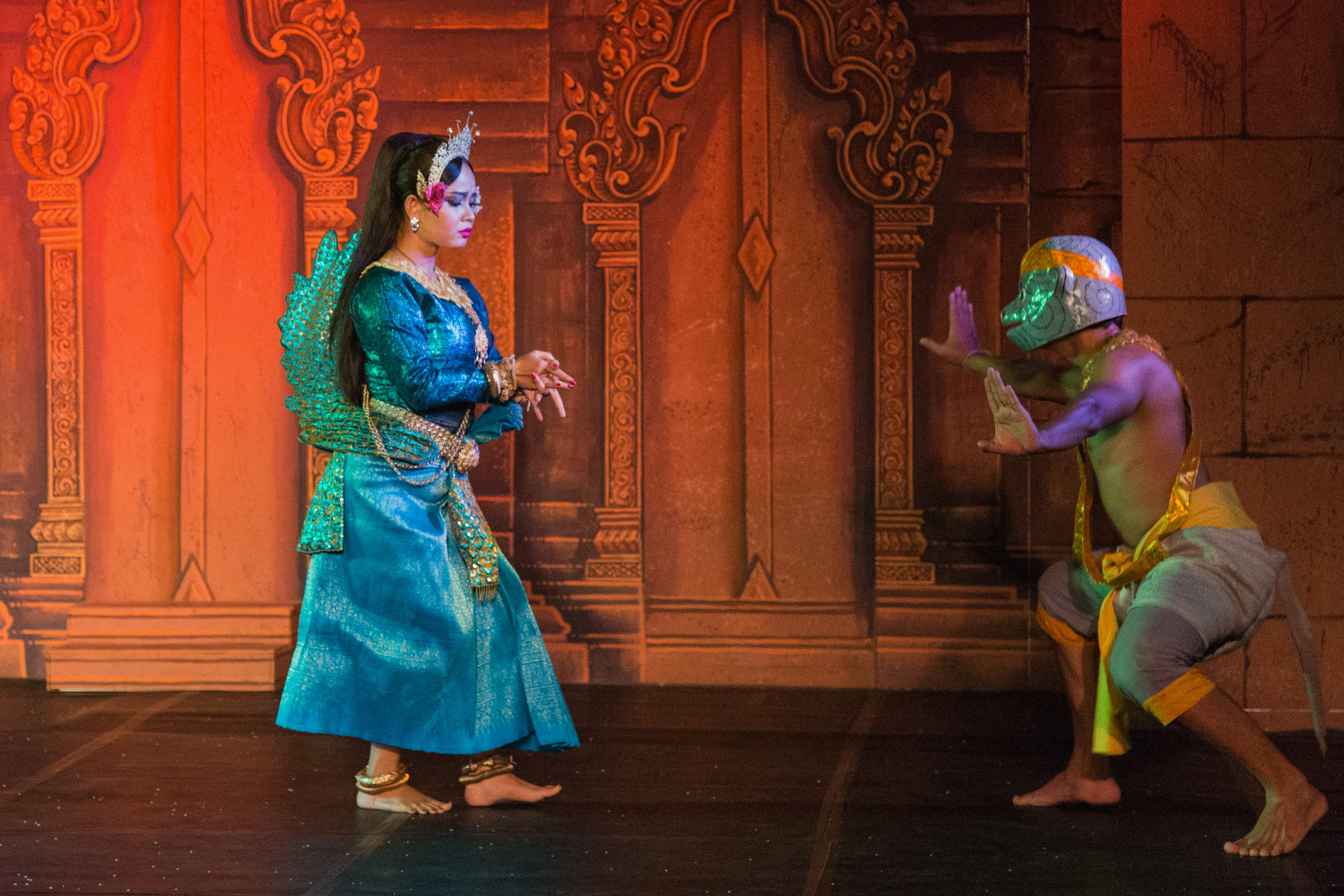 Traditional Cambodian Dance Show - Golden Mermaid Dance. Phnom Penh, Cambodia.